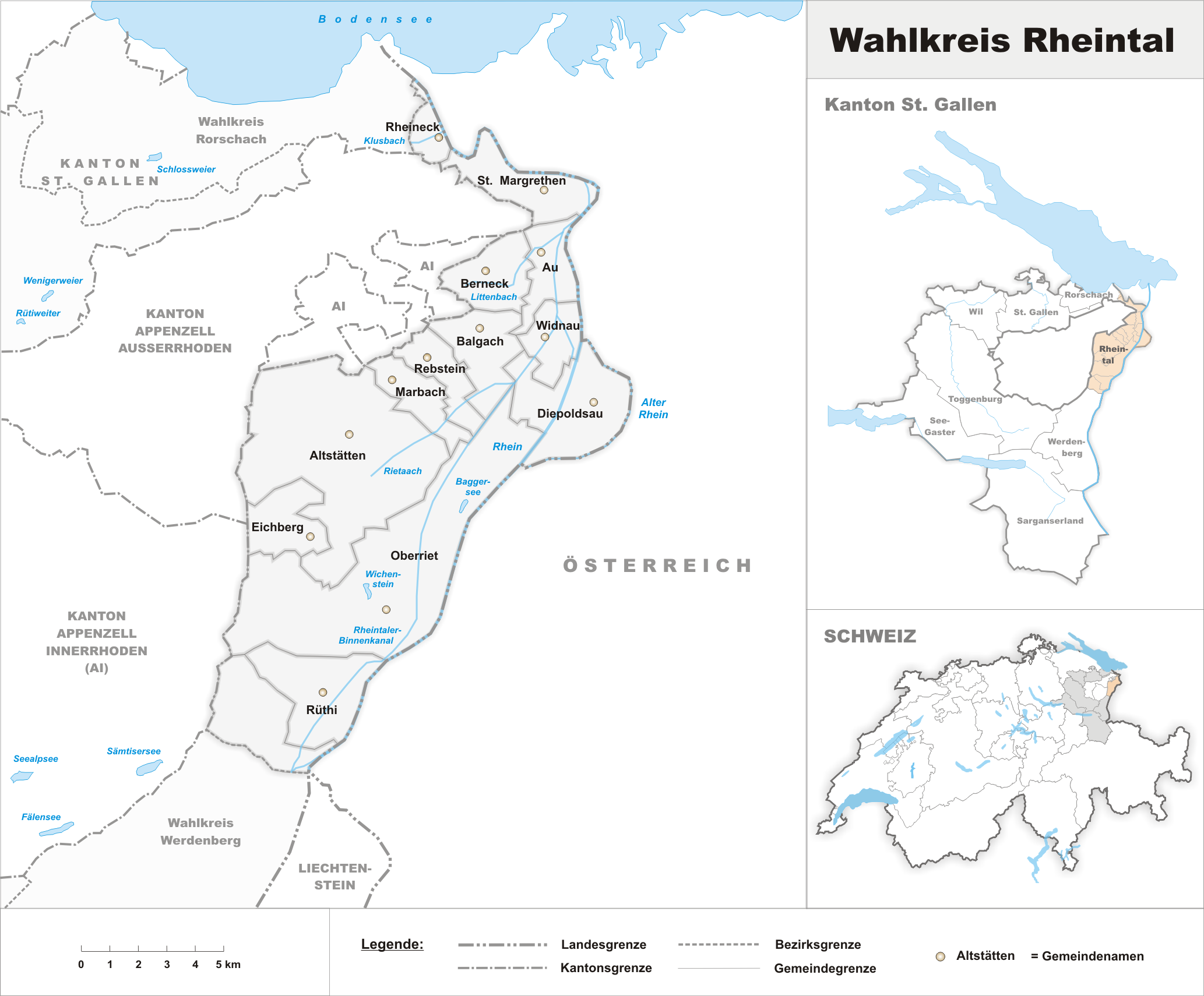 Municipalities in the district of Rheintal